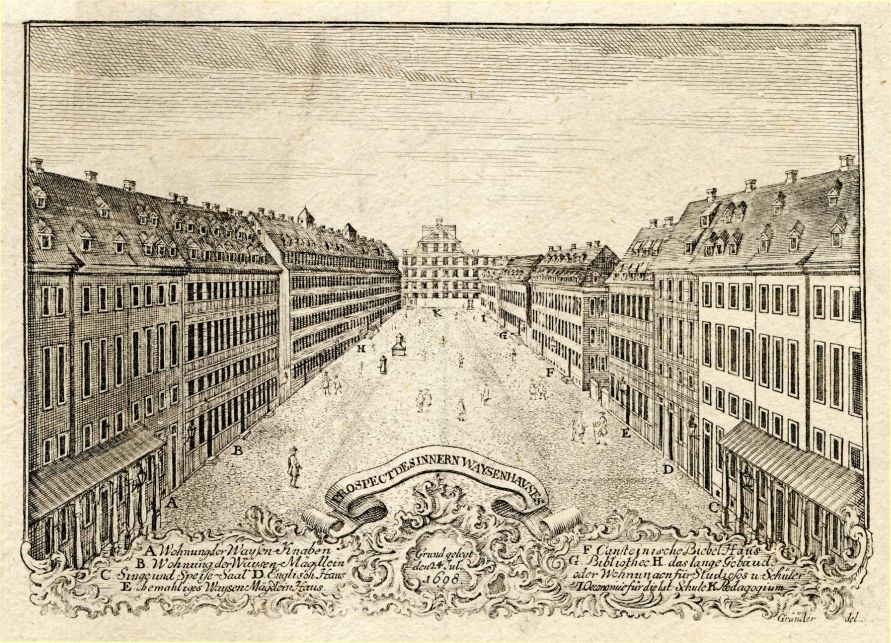 The Francke Foundation in Halle/S., Germany. Overall view.